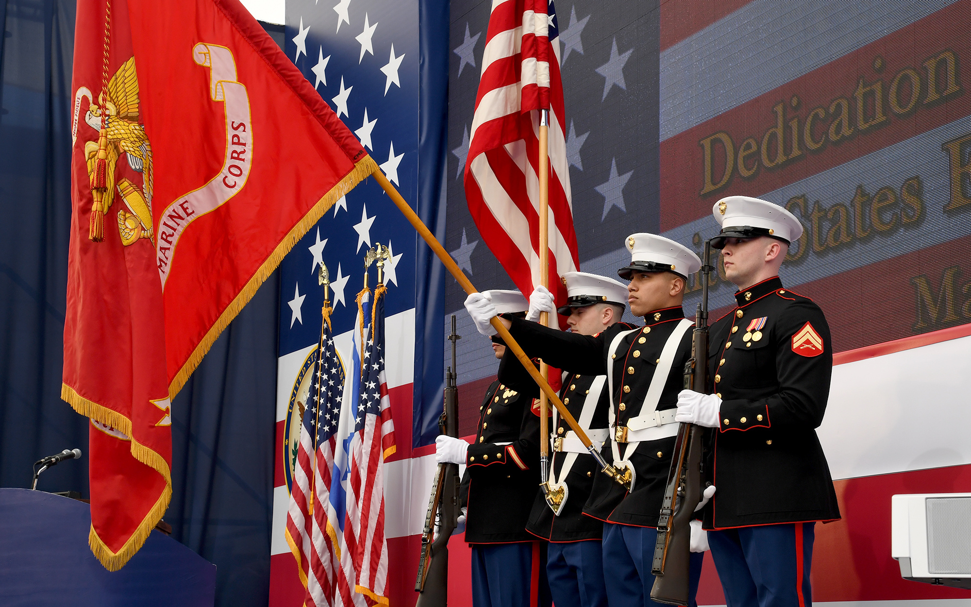 Embassy Dedication Ceremony